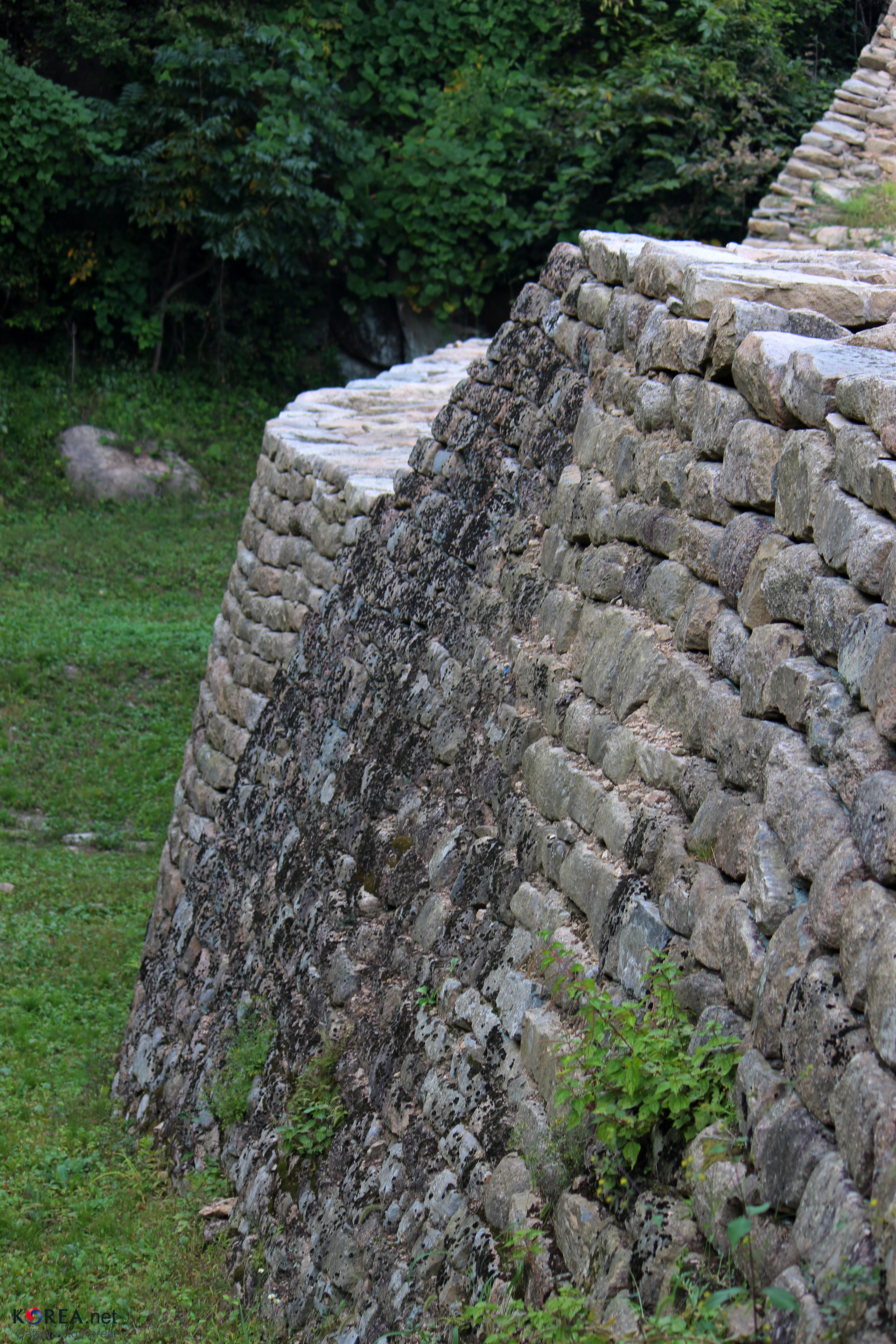 Gyeonghwon Sanseong (Gyeon Hwon Fortress) Gyeon Hwon was born in Sangju and served as a military officer during shilla Dynasty, then founded the latter Baek Jae Dynasty in Wan San Ju during the fourth year of King Hyo Gong (Year 892). The fortress is constructed on the top of a mountain about 500m high, in a large circular shape with a frame around it. The circumference of the fortress is approximately 650m. Four watchtowers were built from natural rock walls to detect approaches from enemies. The method of building the uncommonly detailed fortress seems similar to that of Sam-Nyun Fortress in Chungbuk. 2013.09.20. Sangju-si, Gyeongbuk Ministry of Culture, Sports and Tourism Korean Culture and Information Service ( Wi Tack-whan 견훤산성 상주시, 견훤산성 문화체육관광부 해외문화홍보원 코리아넷 위택환